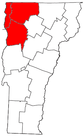 Locator map of the Burlington-South Burlington Metropolitan Statistical Area in the northwestern corner of the U.S. state of Vermont.